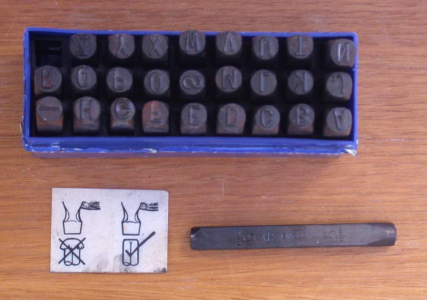 Photograph taken by Glenn McKechnie on the 24th March 2005.